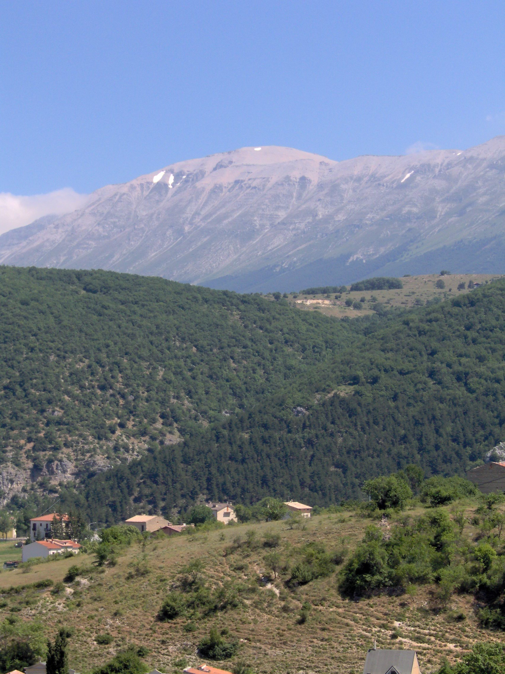 The Majella from Cansano